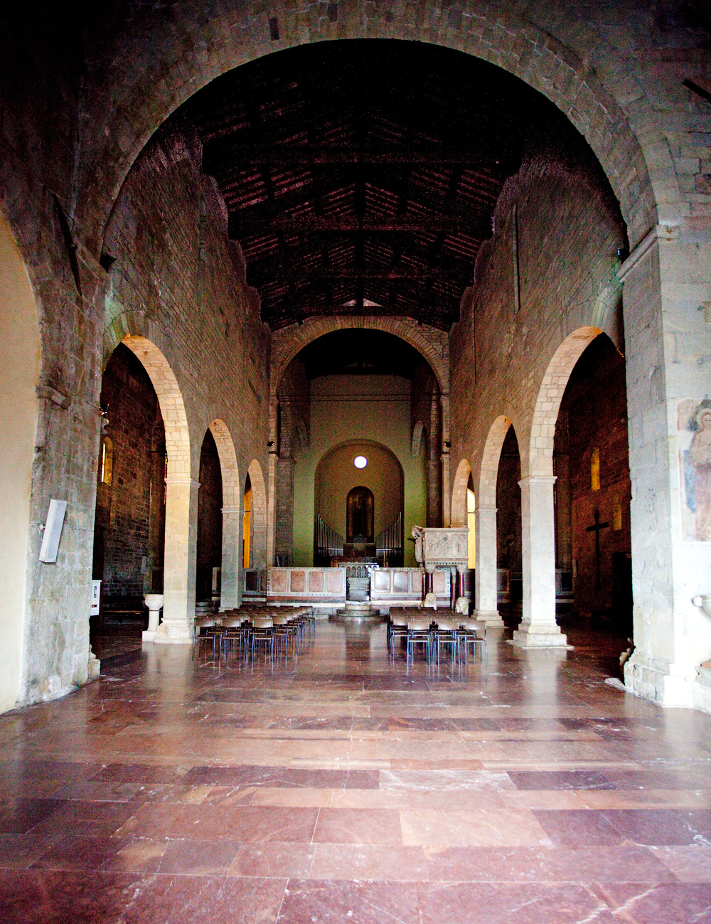 Barga cathedral insice